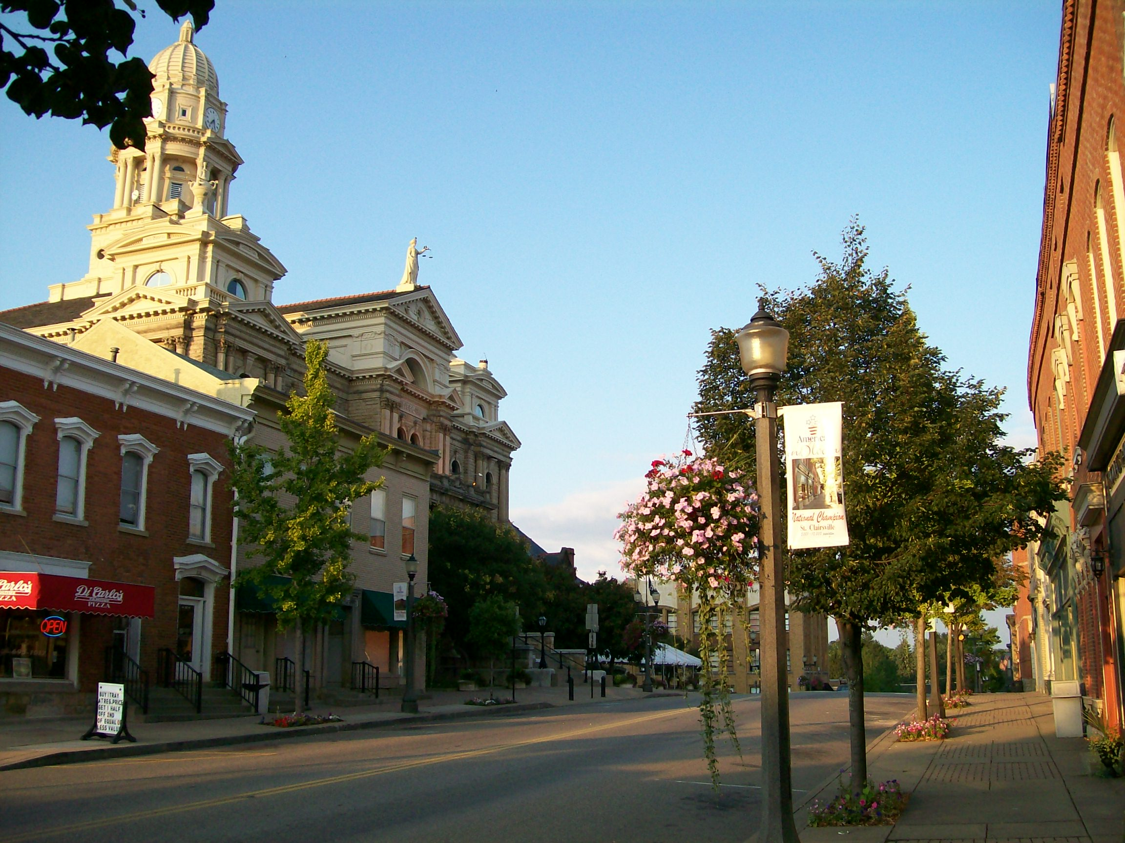 Downtown St. Clairsville, Ohio, classified as a Historic District according to the National Register of Historic Places